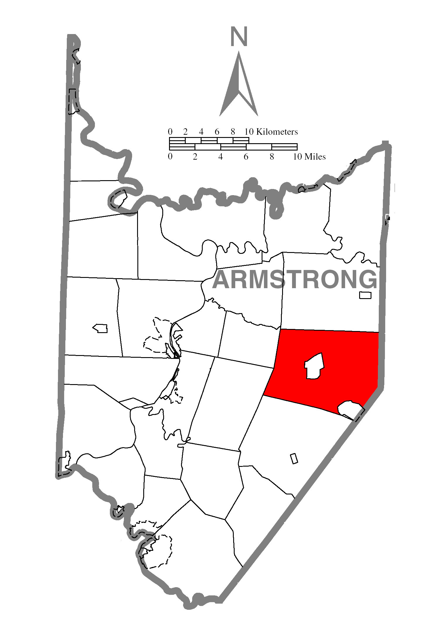 A map of Armstrong County showing Cowanshannock Township, Pennsylvania (alternate) highlighted on the map.